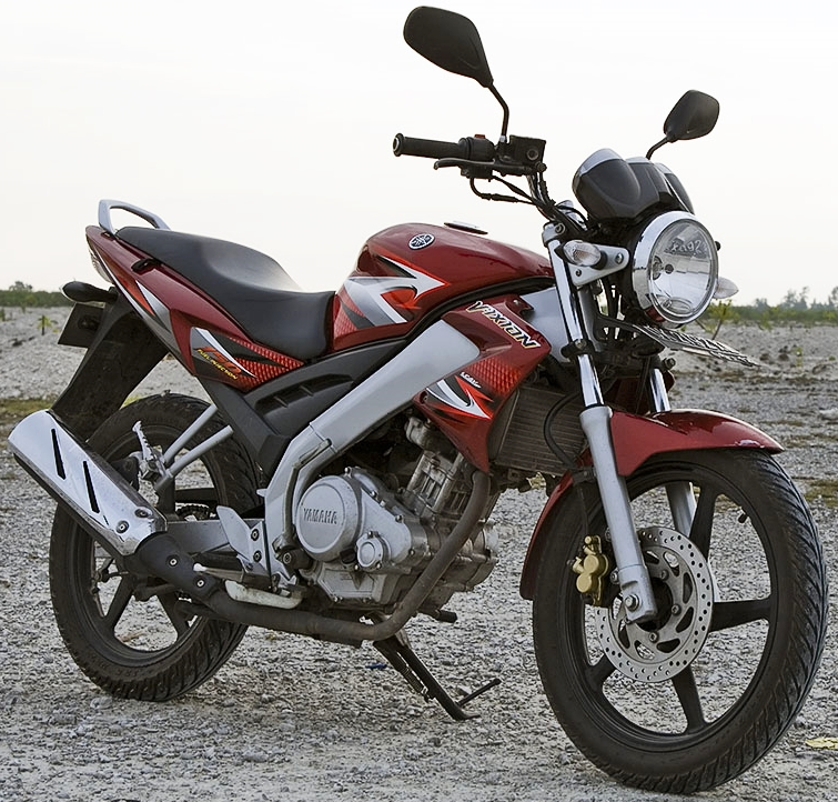 A well rode first generation Yamaha V-ixion with slight modifications by its owner.